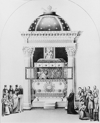 Shrine of saint Afanasy Patellary